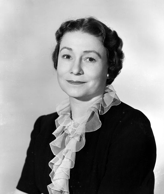 Promotional photograph of actor Thelma Ritter for the film All About Eve (1950).